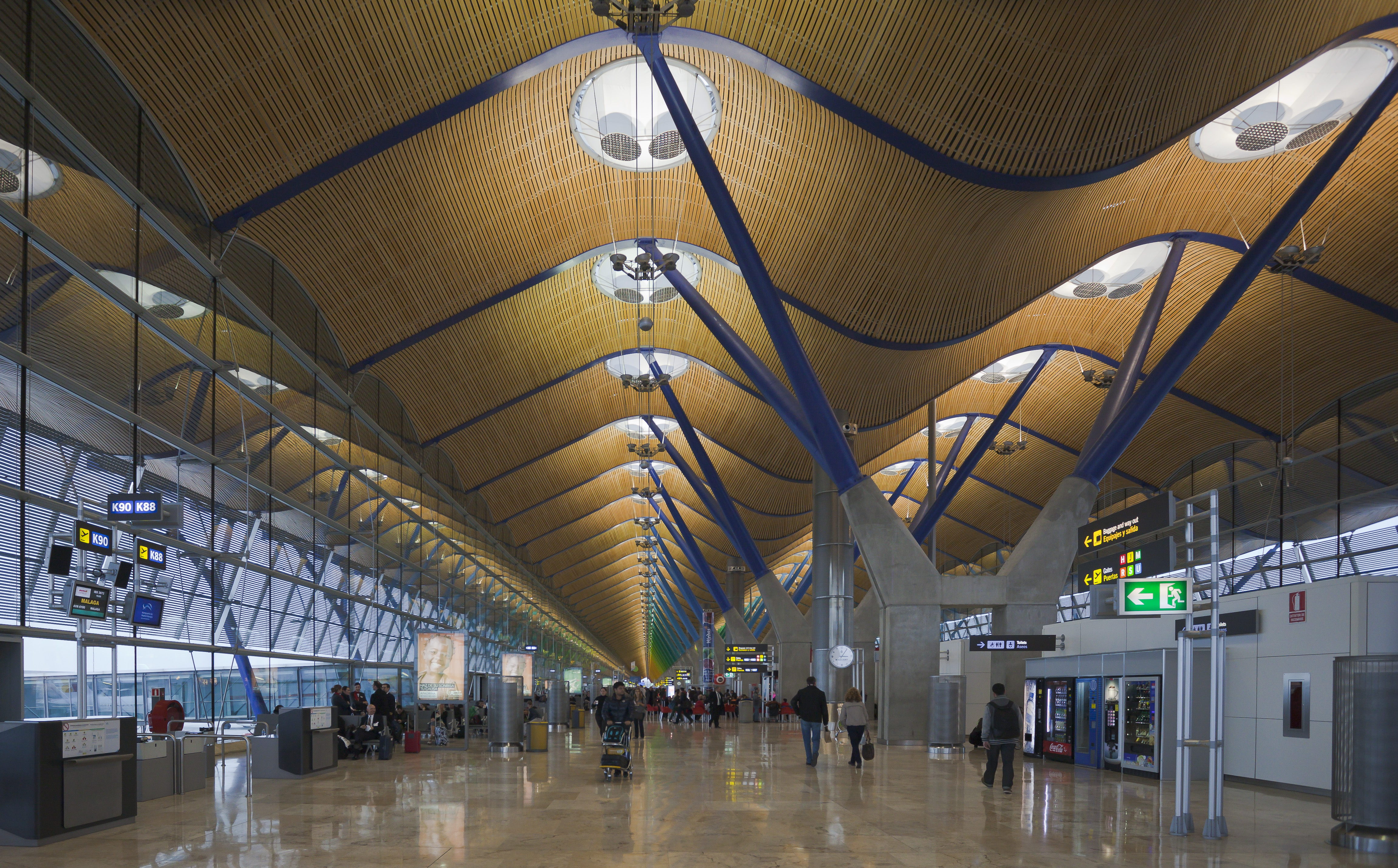 Terminal 4 of the airport Madrid-Barajas, Spain